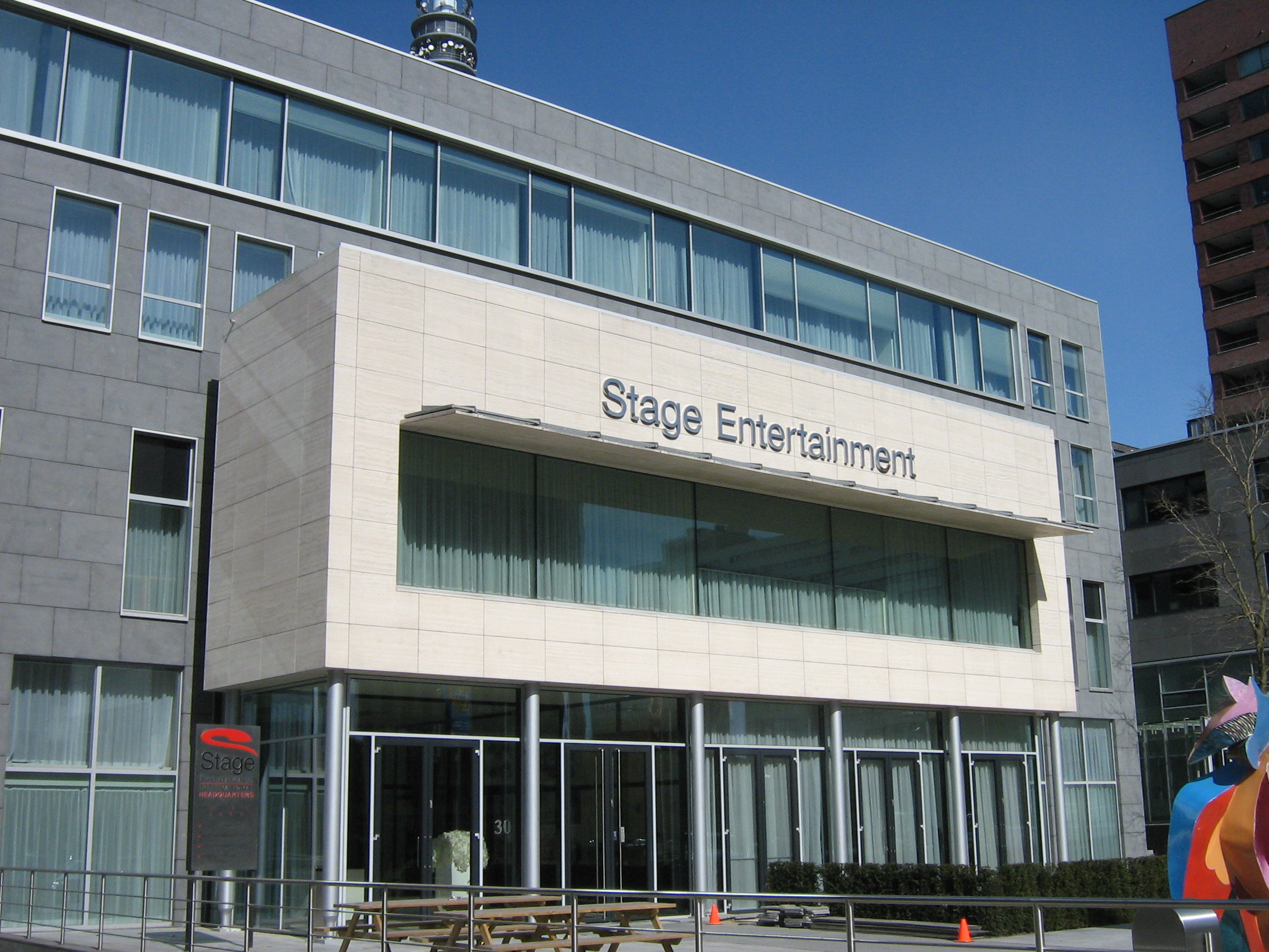 Head office of Stage Entertainment at 30 De Boelelaan, Amsterdam, the Netherlands.